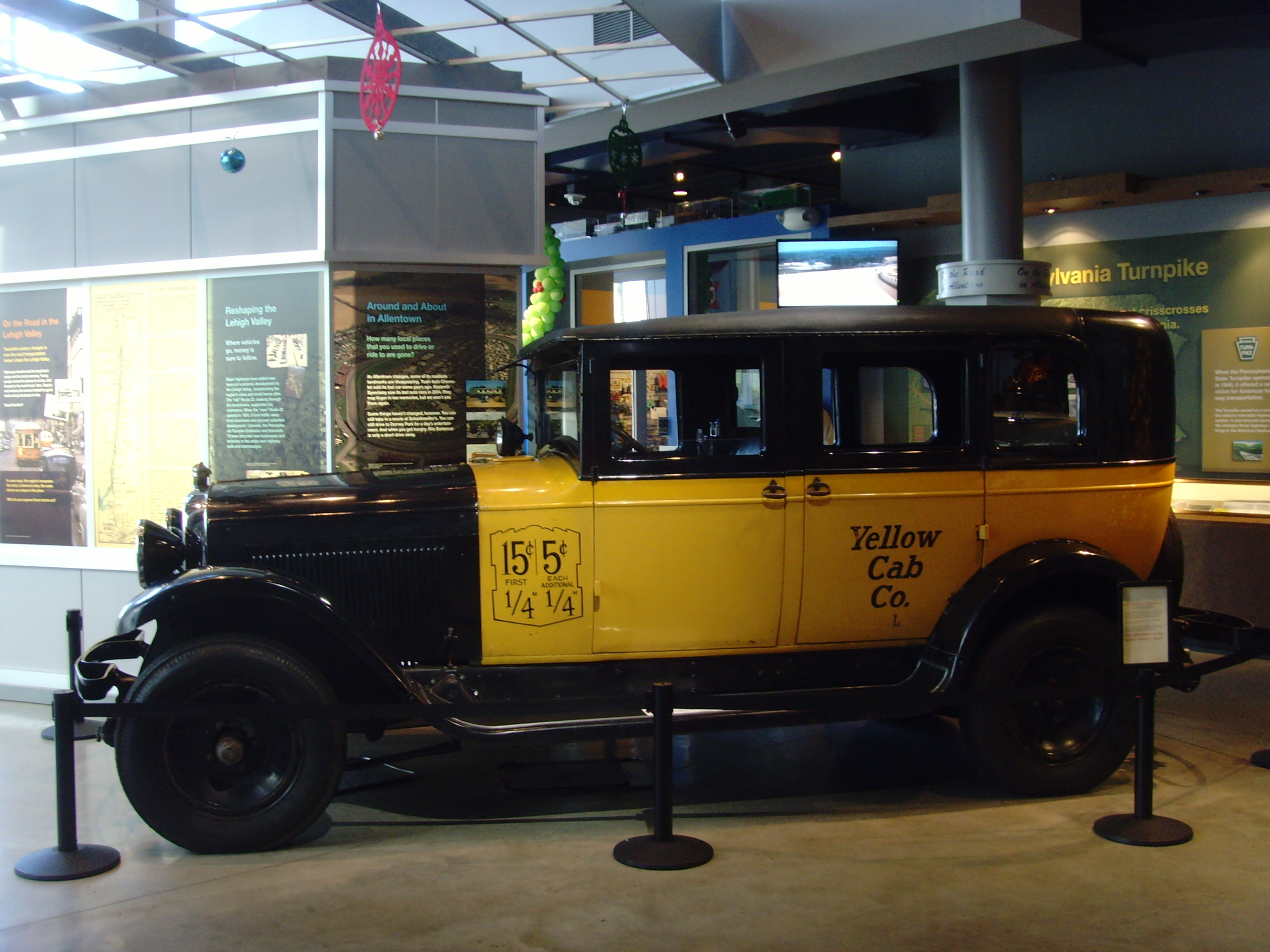 Allentown - America on Wheels Auto Museum - Taxi's "Yellow Cab Co.", built on GMC chassis and engine 8C Buick, 1930, used in the movie "It's a Wonderful Life" of Frank Capra